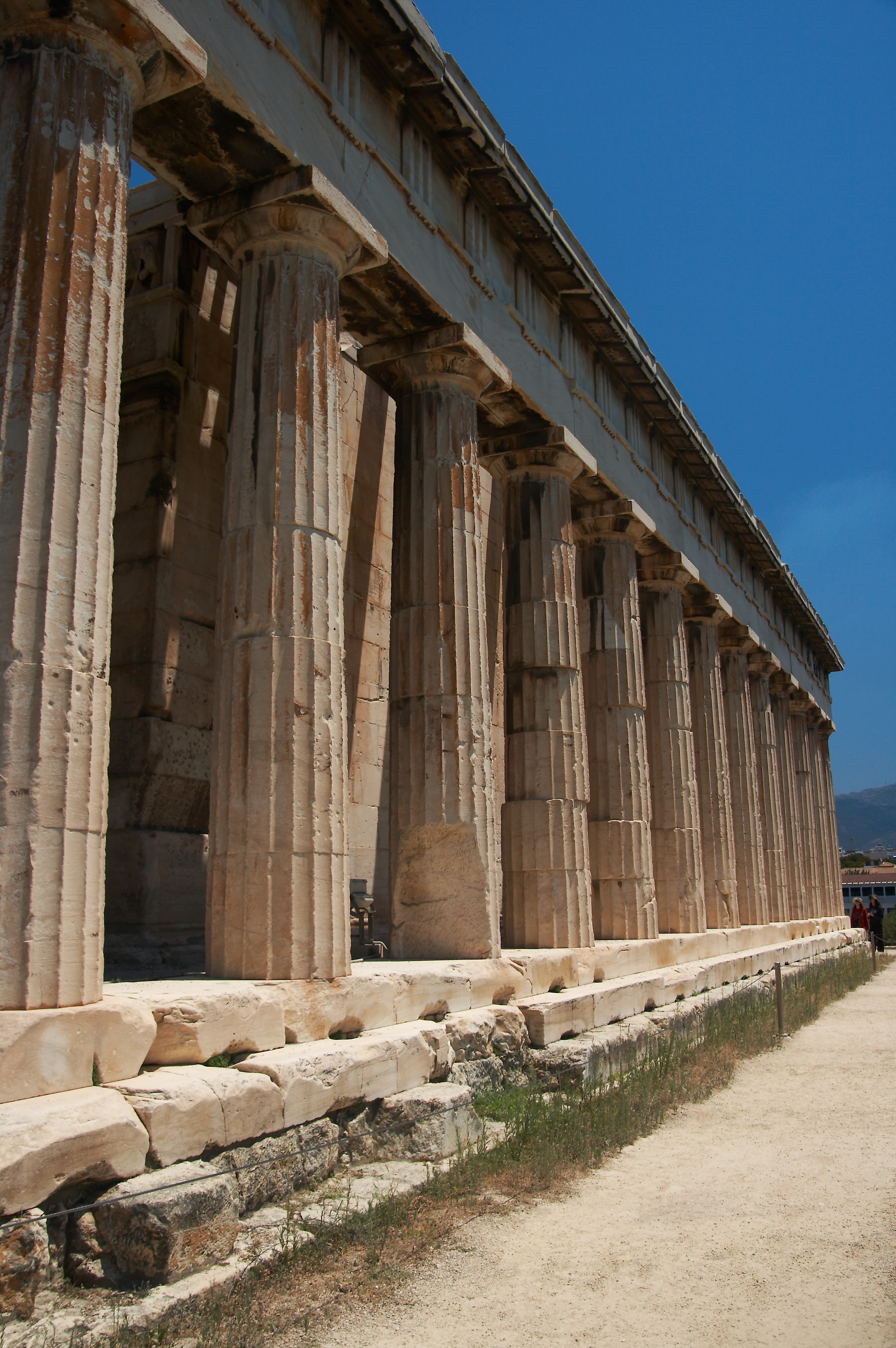 Temple of Hephaestus (South side), Ancient Agora, Athens, Greece.